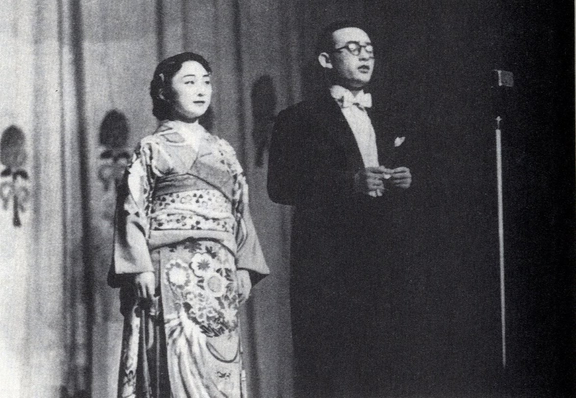 Noboru Kirishima and Misao Matsubara